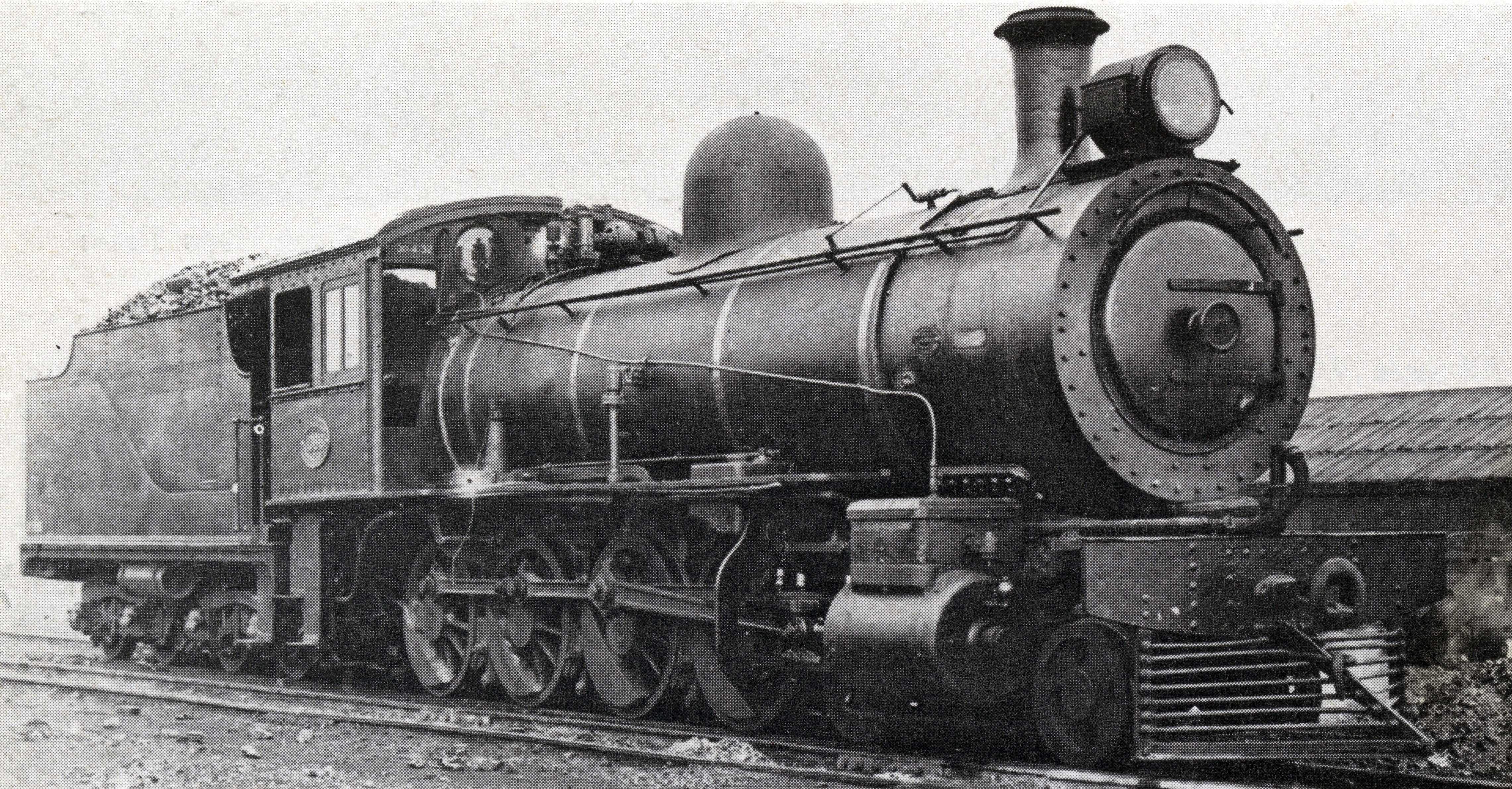 Ex Cape Government Railways Class 8 779 4-8-0 South African Railways Class 8 1088 4-8-0 with rebuilt Type XF tender Builder's Number: Neilson, Reid 6247 Location: East London, Cape Province